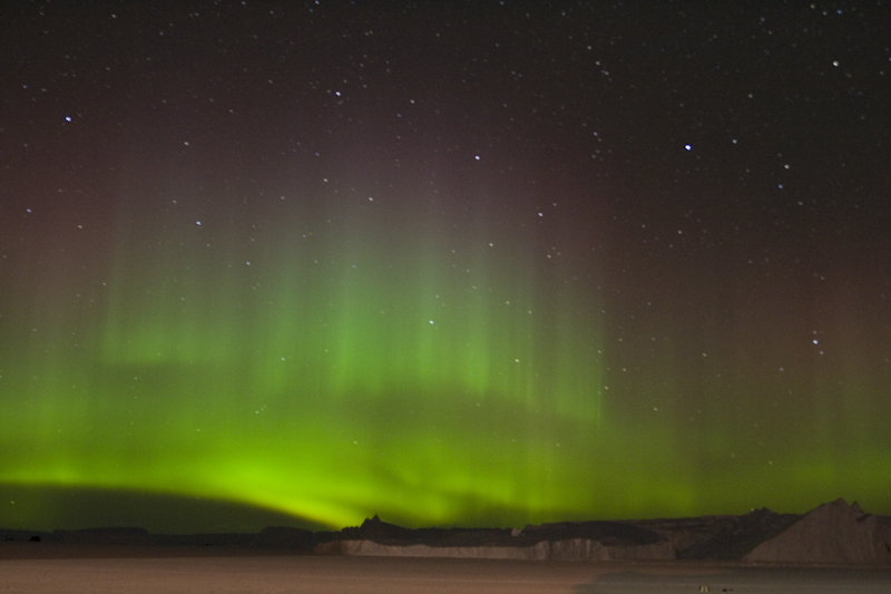 Aurora australis in Antarctica